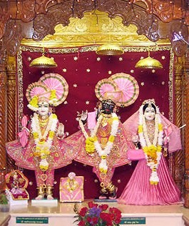 Swaminarayan Mandir Houston